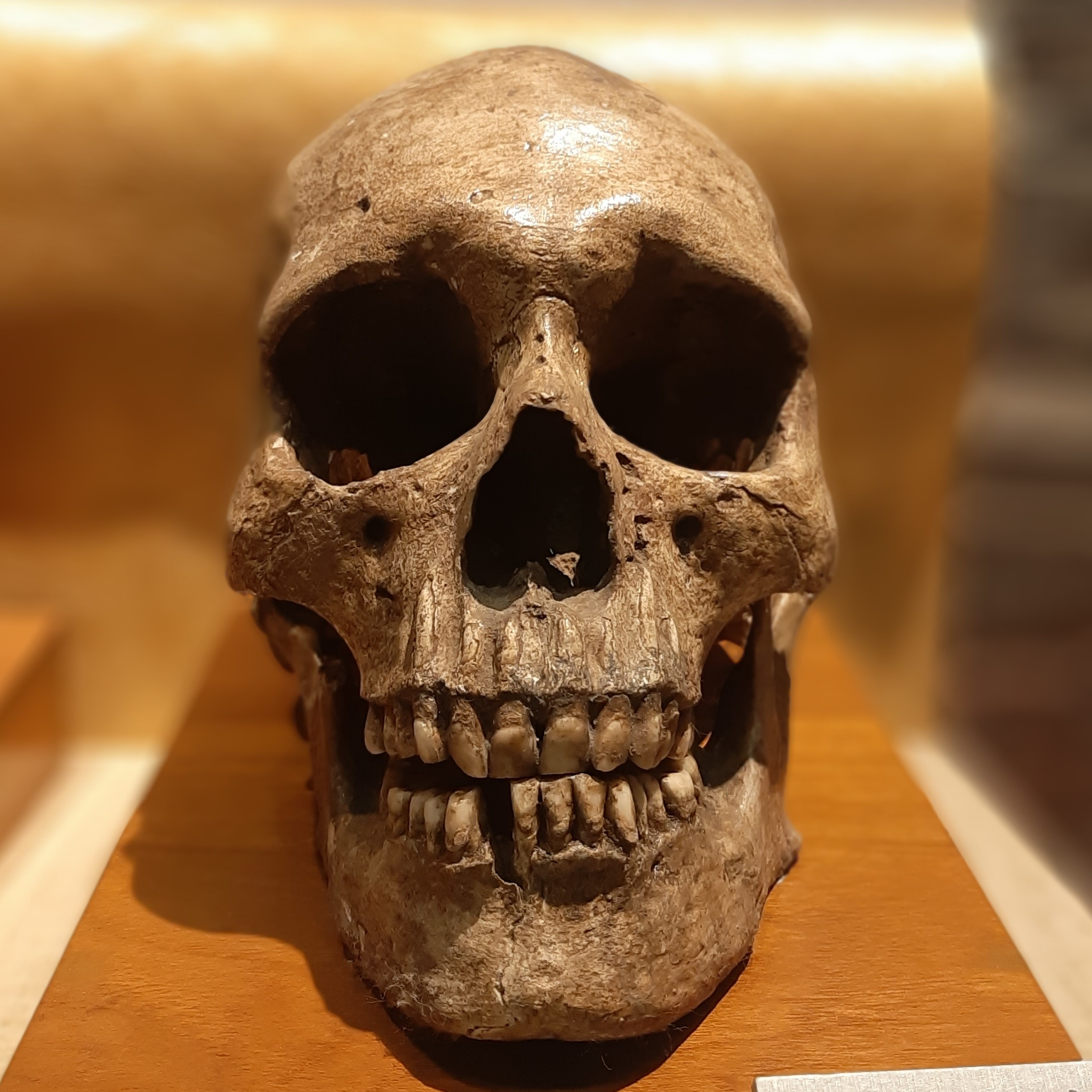 Skull of a citizen of Harappa, Indian Museum